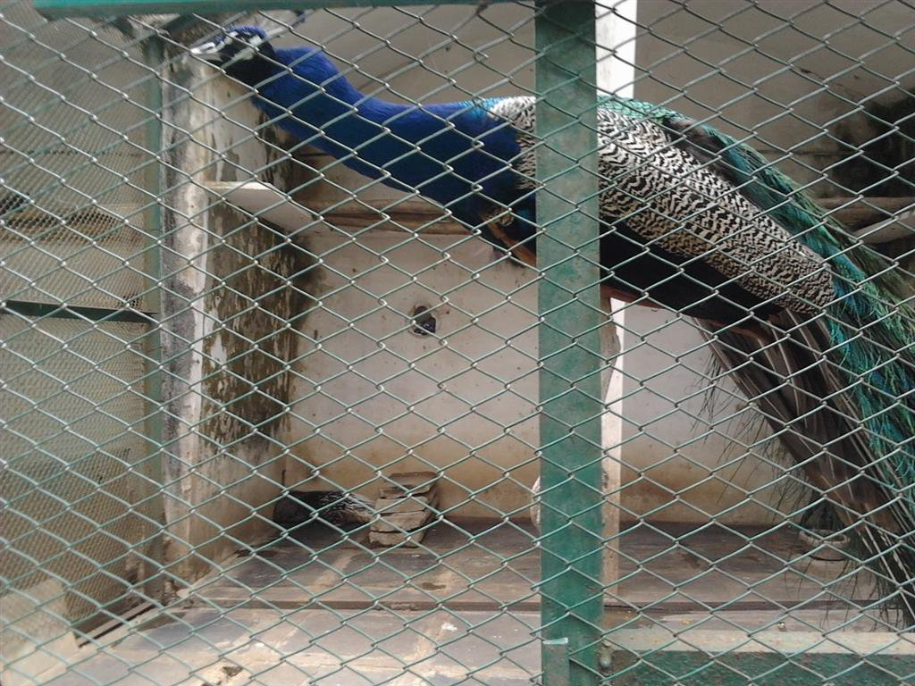 Pics from Tyavarekoppa Lion and Tiger Safari